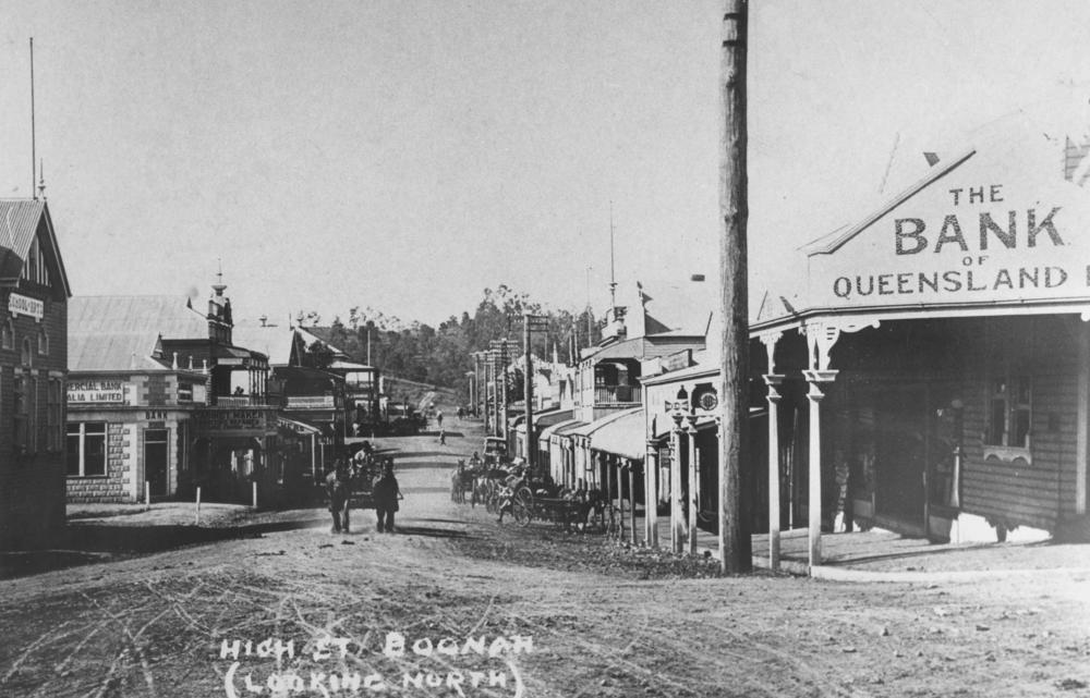 High Street Boonah, ca. 1917. View of High Street showing horsedrawn vehicles in the unsealed street. The Bank of Queensland is in the right foreground and the Commercial Bank is on the left.